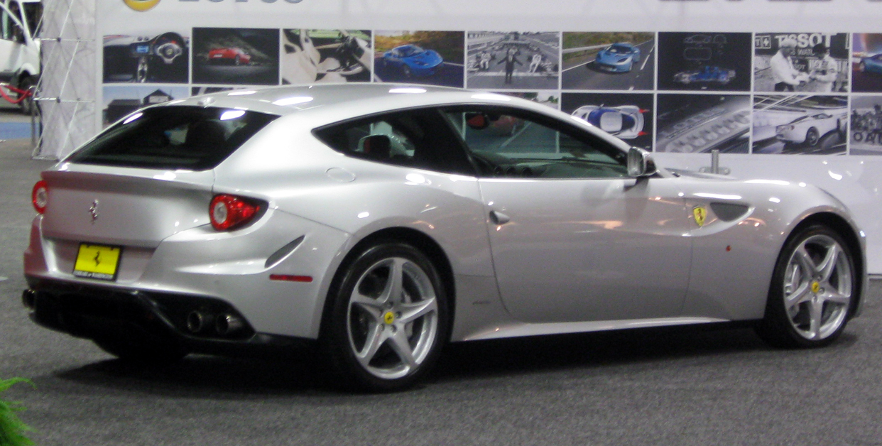 Ferrari FF photographed in Washington, D.C., USA.